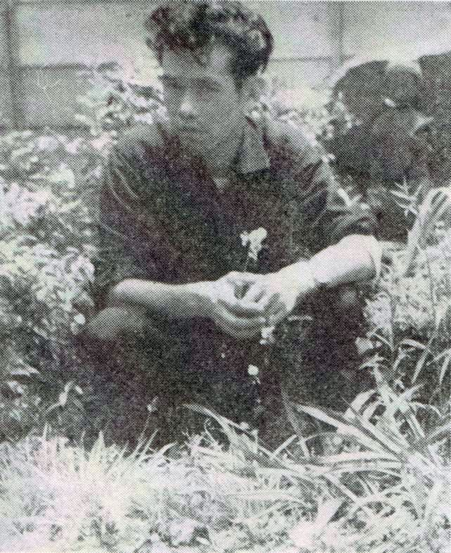 Rokurō Taniuchi